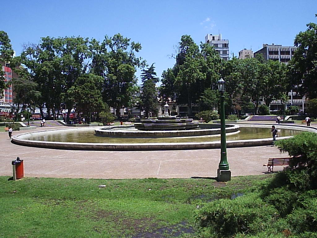 Marqués de Sobremonte (Sobremonte marquis) square. Located in front of the municipal building (Palacio 6 de julio). Cordoba, Argentina.